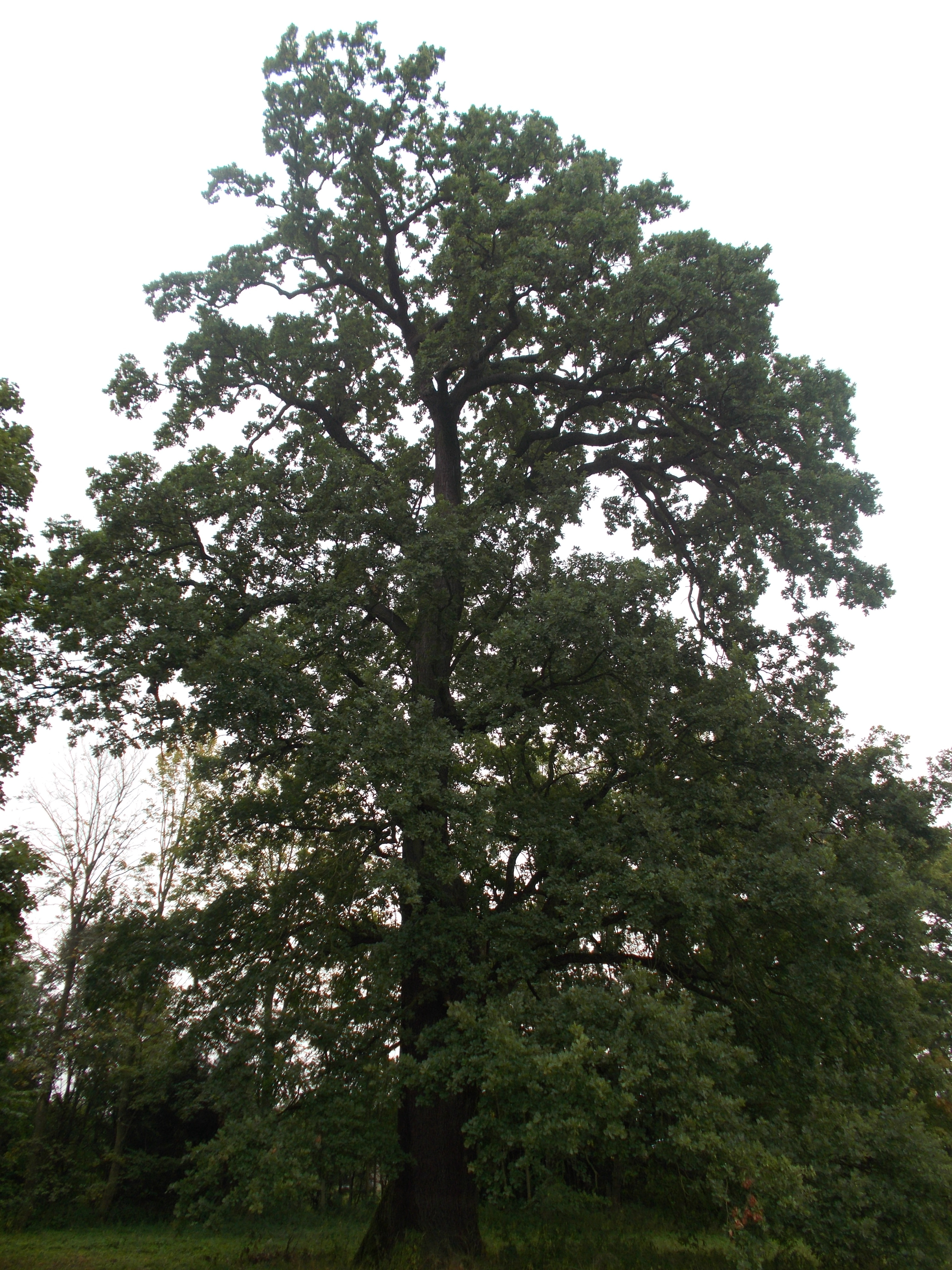 English Oak in Kliczków Wielki village, accros from the manor park, wth great, tall trunk, visible to the tree's top.